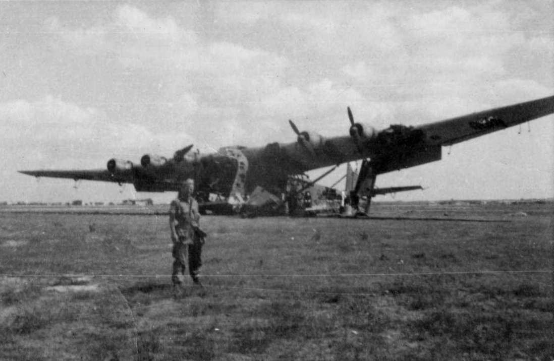 A wrecked German Messerschmitt Me 323D-2 transport at Castlevetrano, Sicily, Italy.